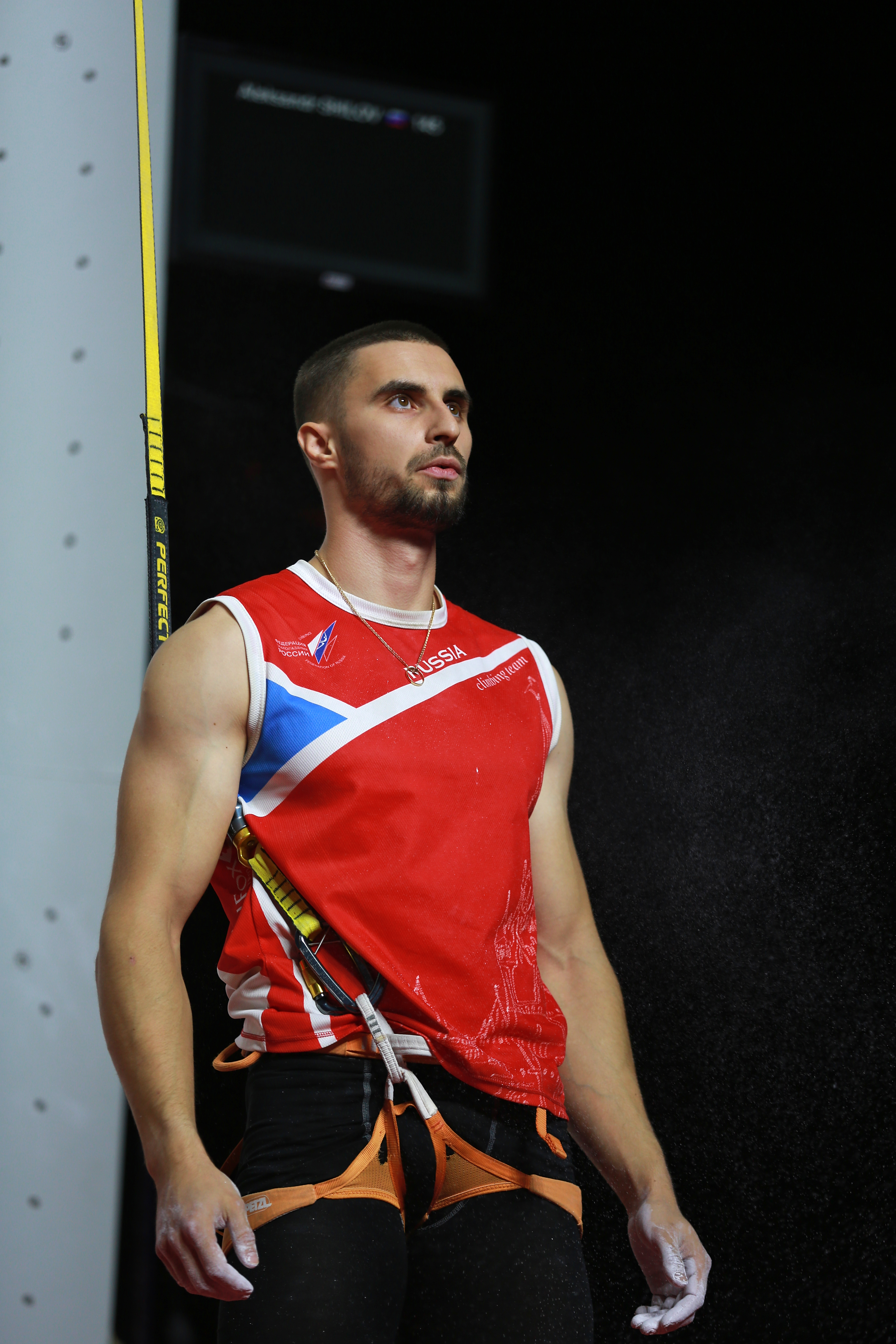 Climbing World Championships 2018 Speed Eighth-finals